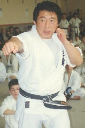 Photo fragment. It's made by Yuriy Pirogov. It's allocated from his approval.